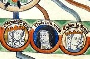 Princesses Adela, Cecilia and Constance, daughters of William the Conqueror and Matilda of Flanders, are depicted on the family tree of English rulers.